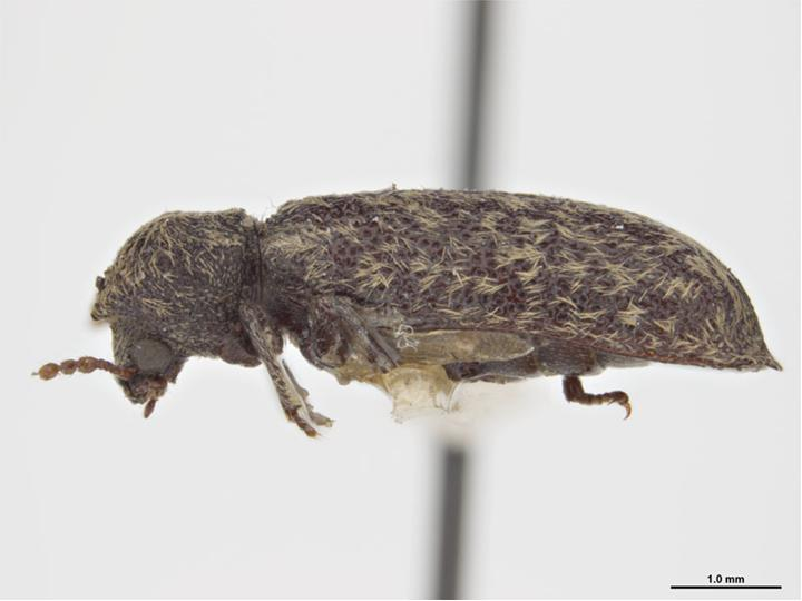 Lichenophanes truncaticollis - Elkhart, Indiana, United States.